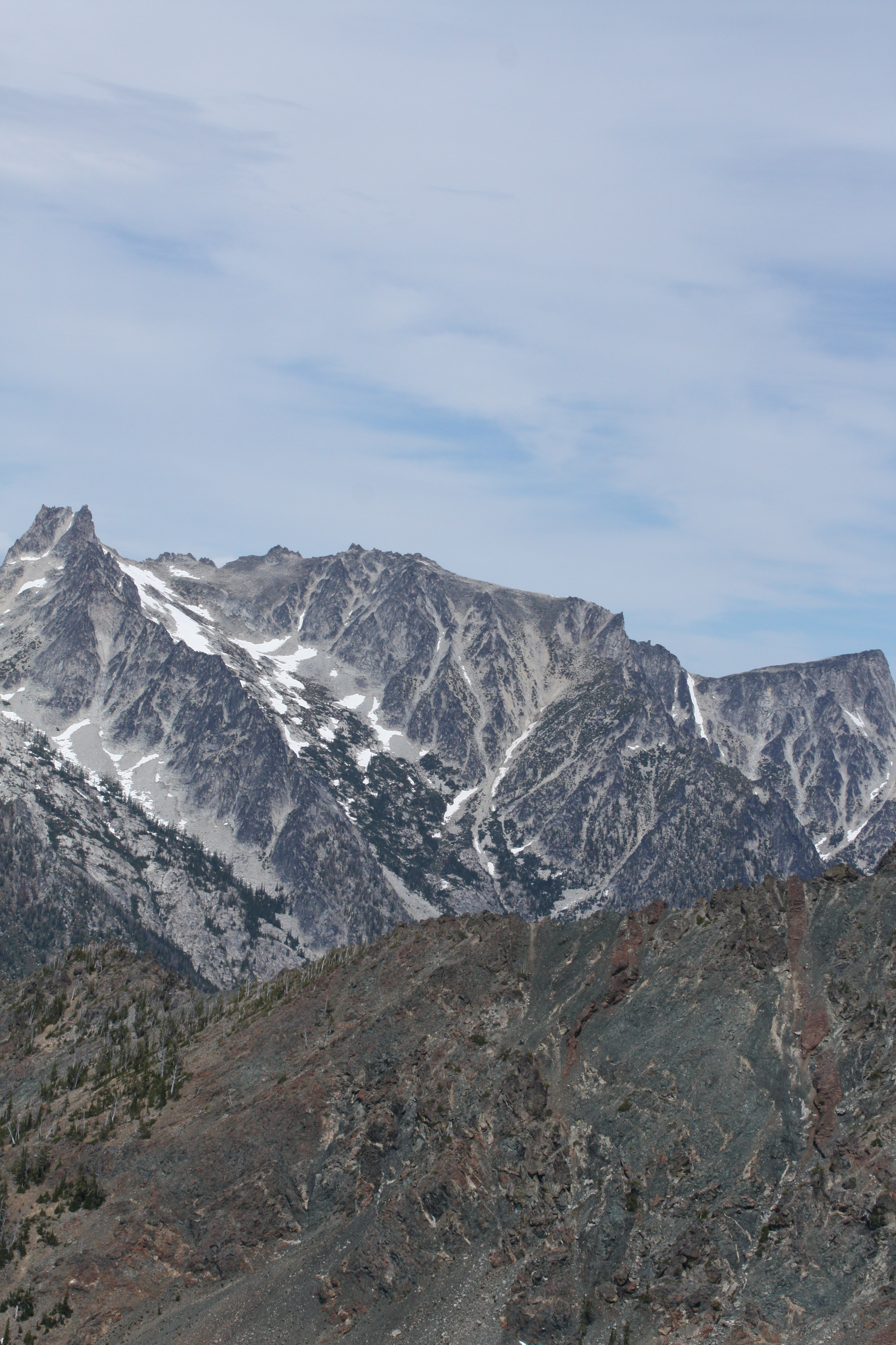 Dragontail Peak (8840+ feet, 2694+ m, left)